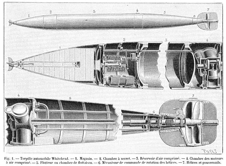 Withehead torpedo mecanism